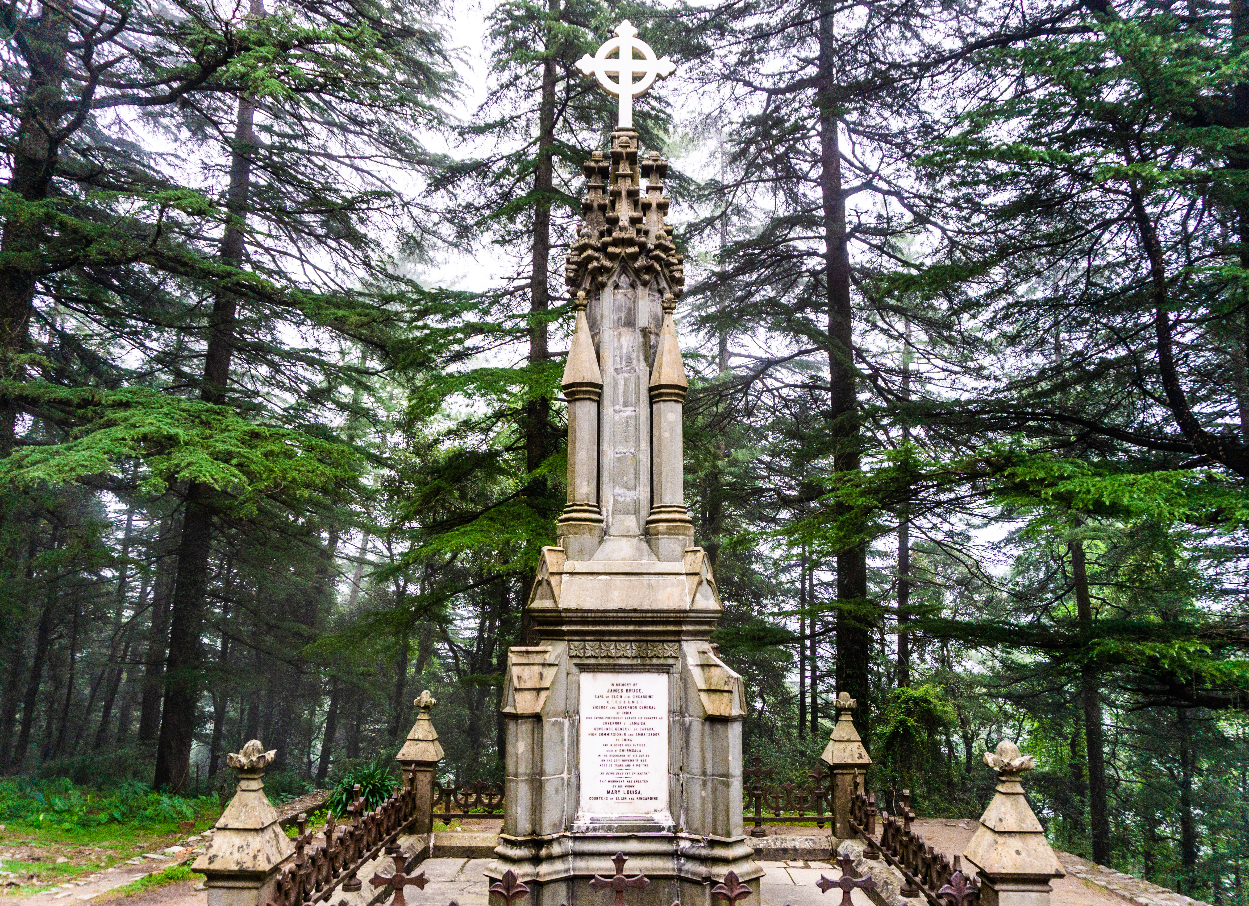 A view of the tomb of James Bruce, 8th Earl of Elgin (Lord Elgin) (1811-1863), a former Governor-General of the Province of Canada and Viceroy of India. It is located at St. John in the Wilderness Church in Dharamshala, Himachal Pradesh, India.